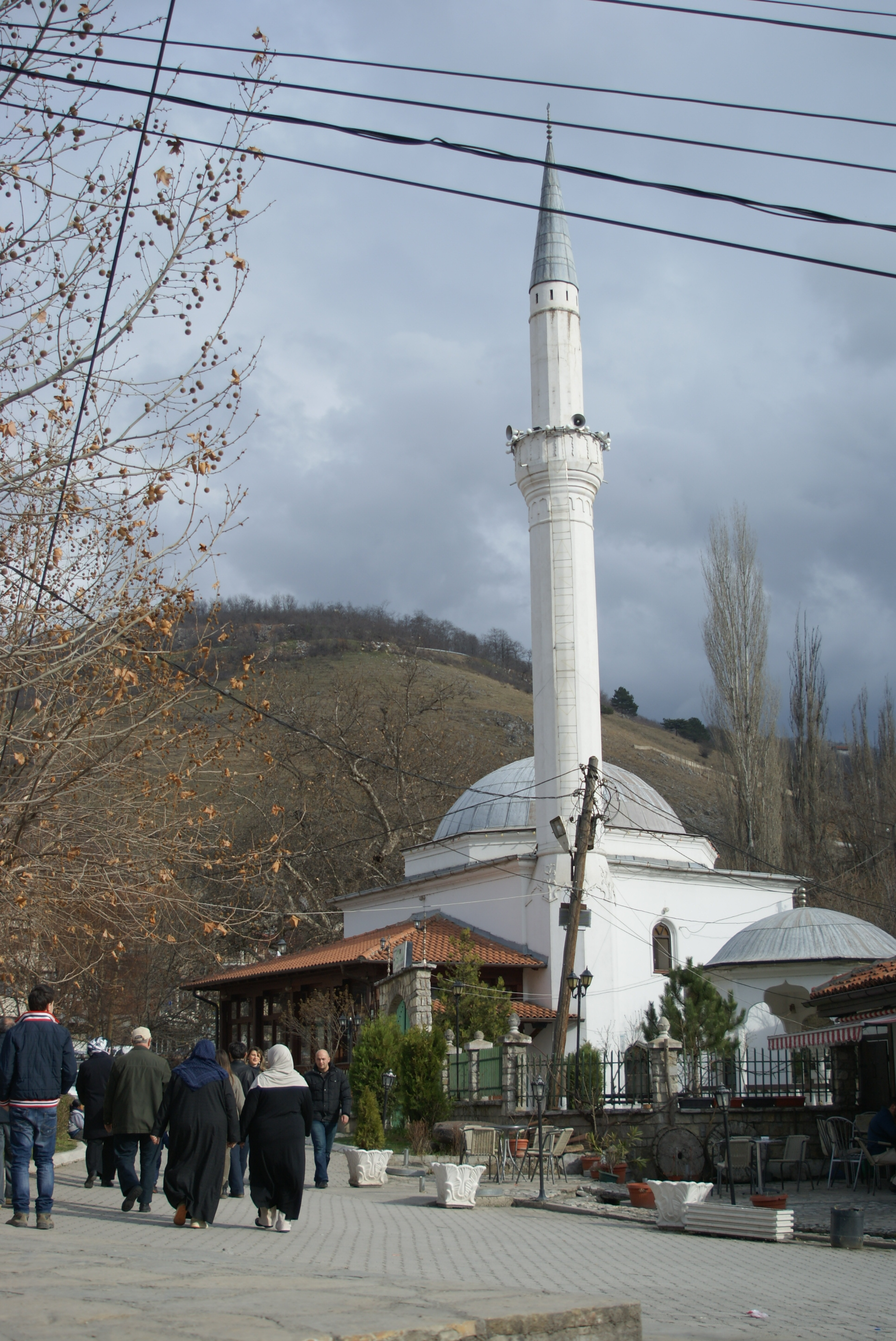 Xhamia e Maksud Pashes